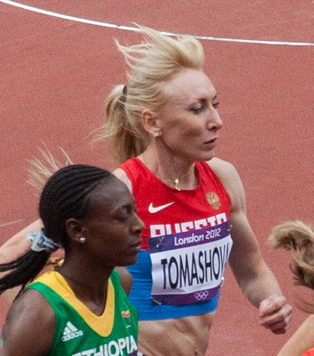 Olympic Stadium, 6 August 2012, London Olympic Games, Women's 1,500 metres heats, Tatyana Tomashova